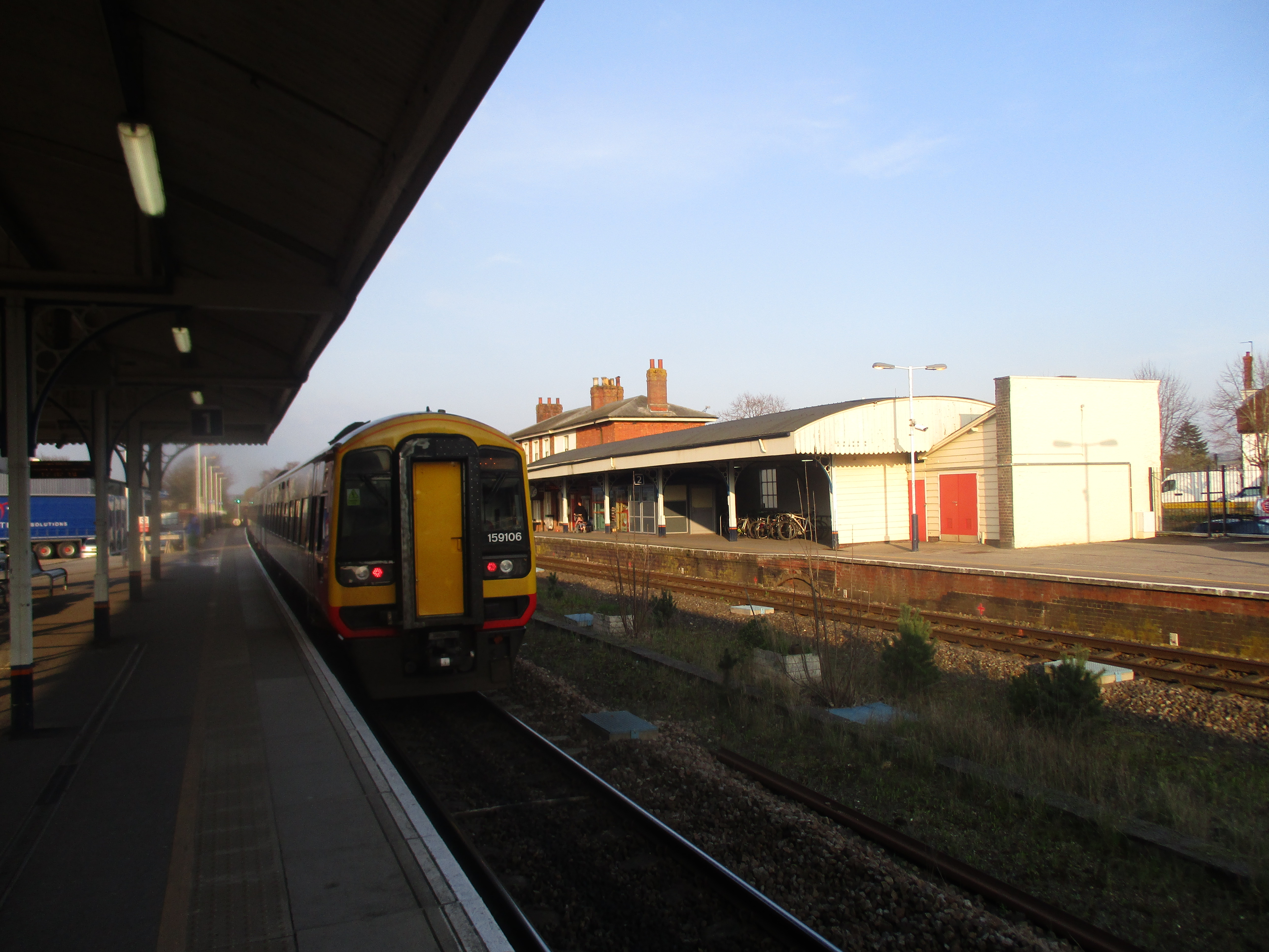 Andover Station East with 159 106